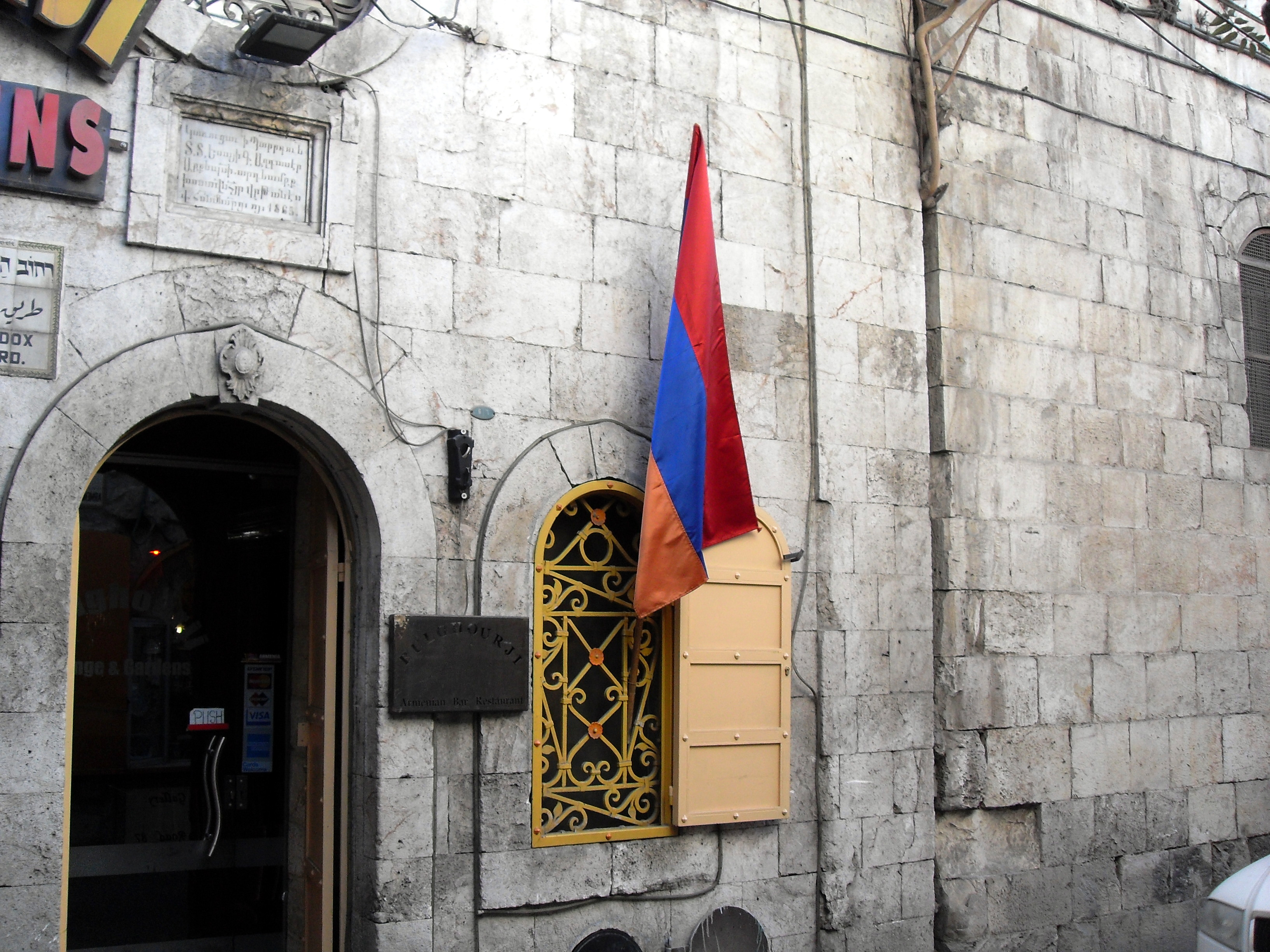 Old Jerusalem, The Armenian Patriarchate St 6, Bulghourji Lounge & Gardens (armenian restaurant), Flag of Armenia